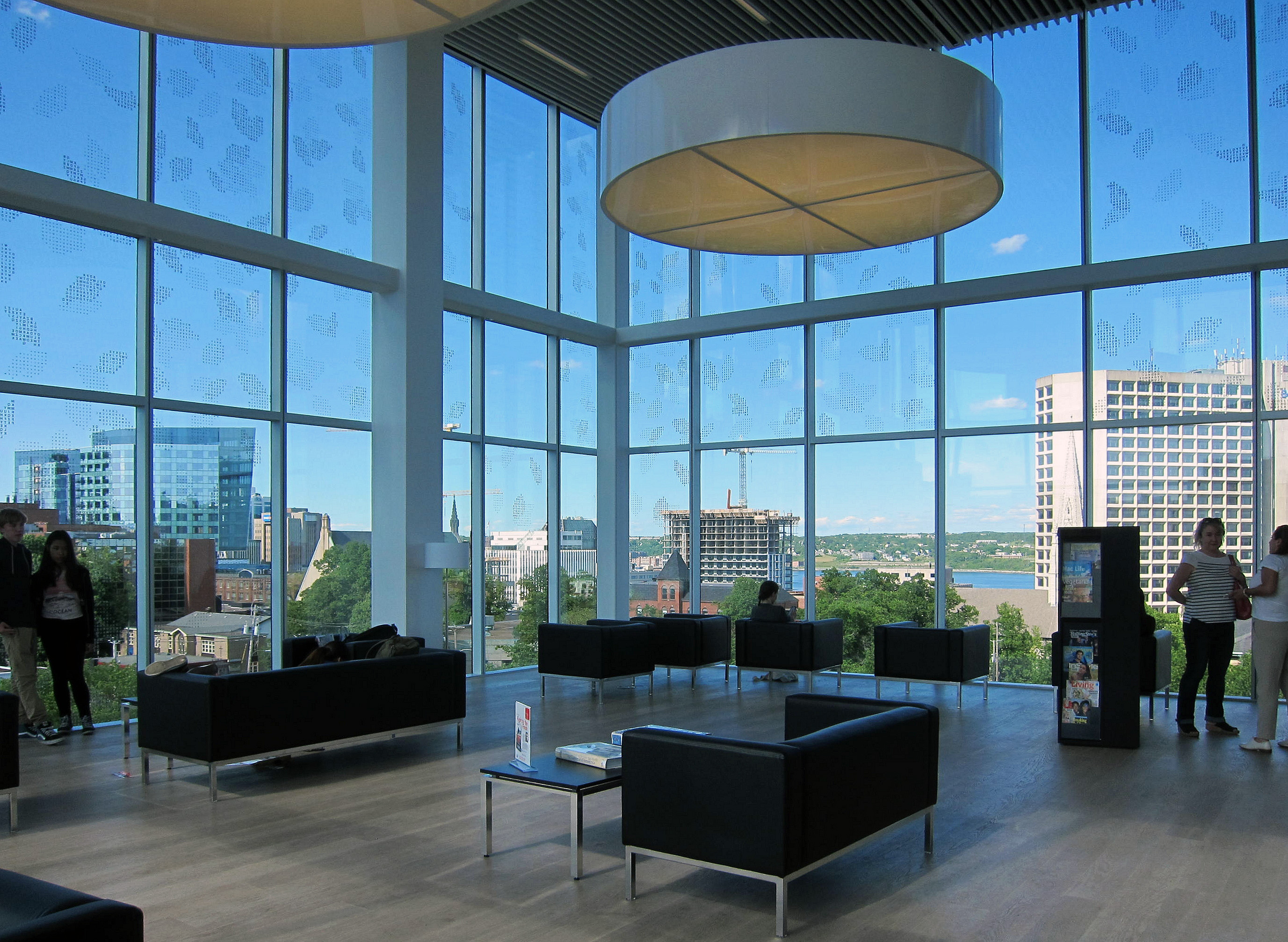 The "Halifax Living Room" at the Halifax Central Library, Canada.